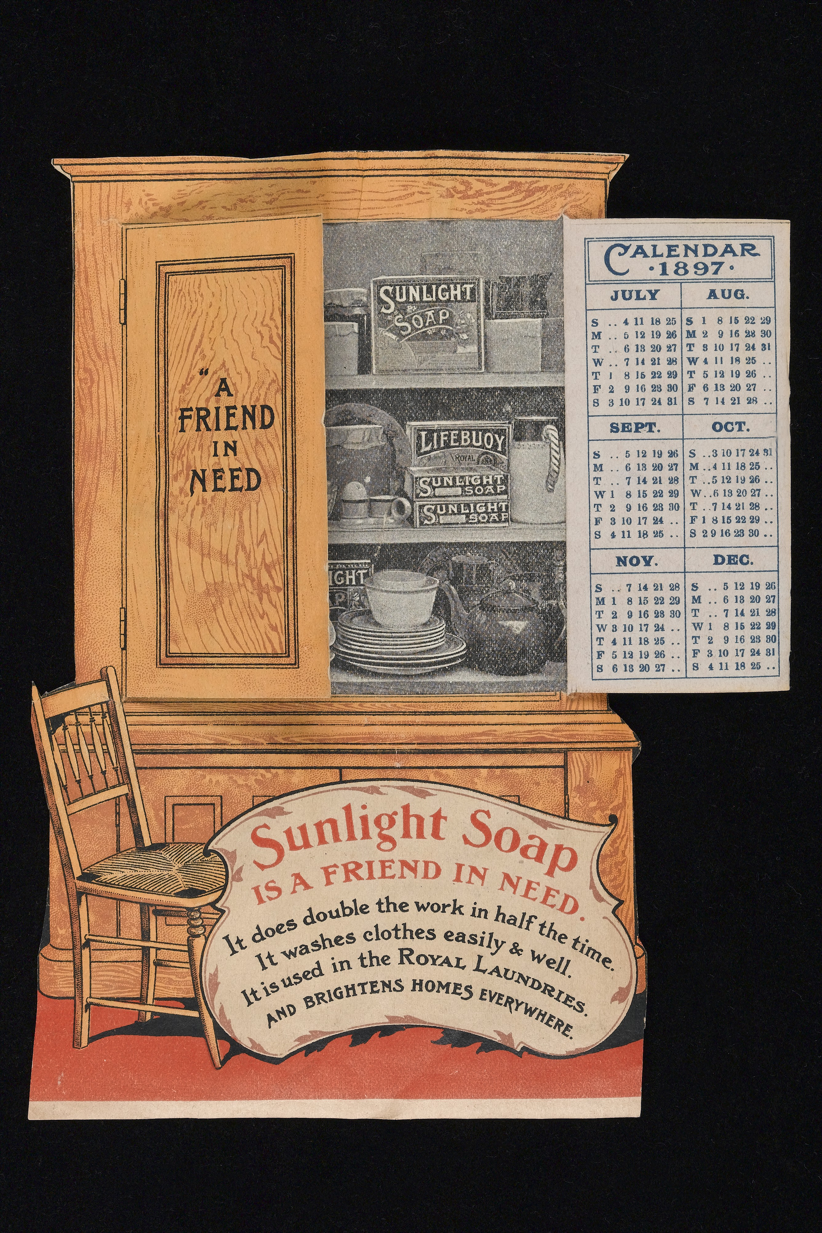 Advert for Sunlight Soap washing powder including a calendar for 1897 General Collections Keywords: Product; Cleanliness; Advertisements; Hygiene; Advertisement; Sunlight Soap.; Clothing